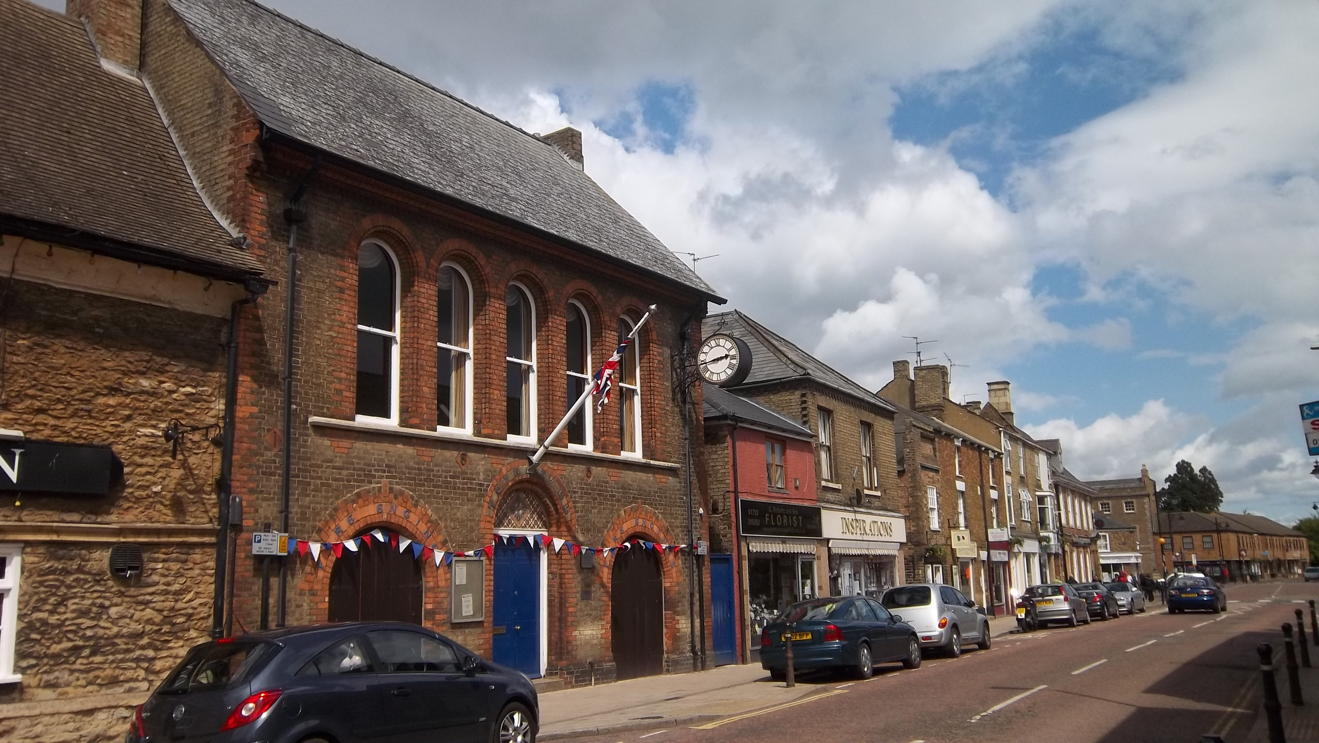 Whittlesey Town Hall decorated for the Queen's Diamond Jubilee in 2012